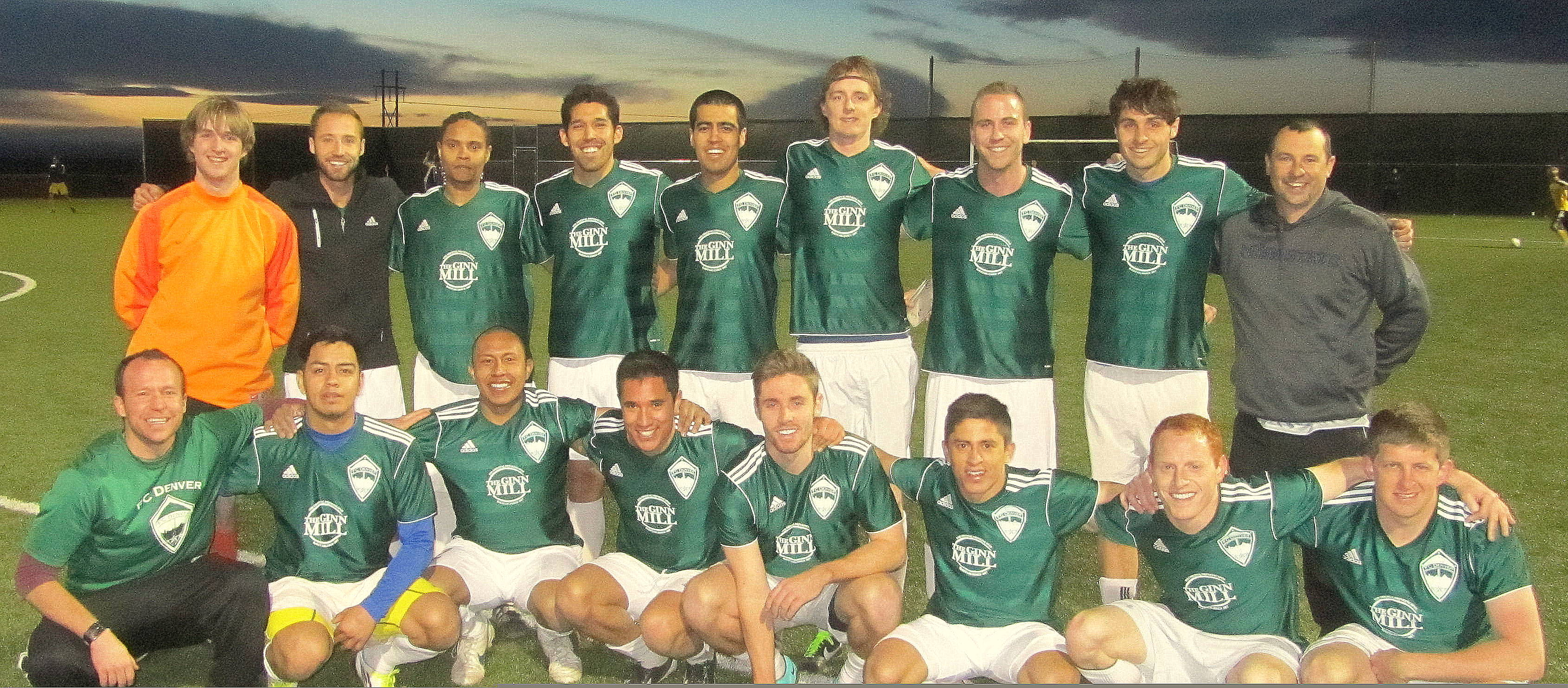 Team Sports Pictures, Soccer